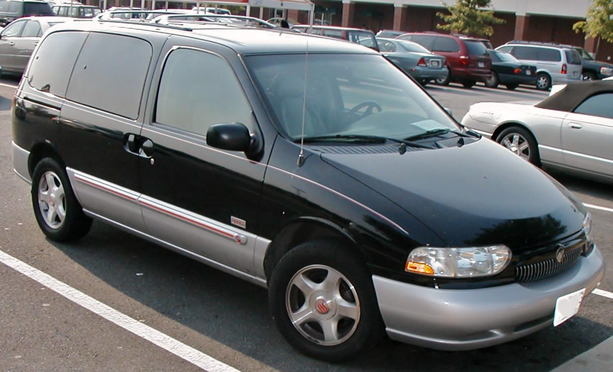 1999-2002 Mercury Villager photographed in USA.